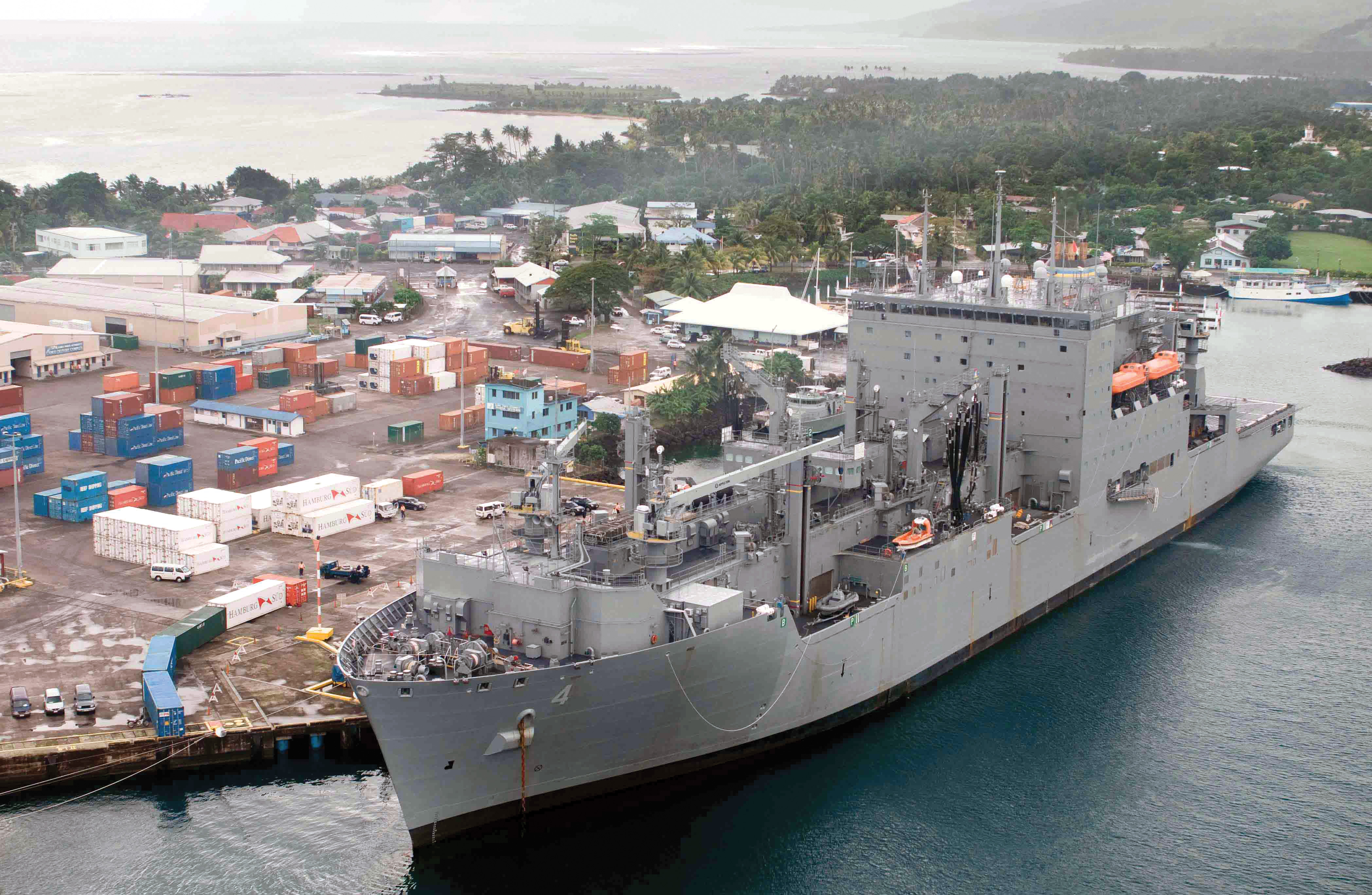 MSC dry cargo/ammunition ship USNS Richard E. Byrd sits pierside in Upolu, Samoa, during Pacific Partnership 2009, a humanitarian and civic assistance mission. UPOLU, Samoa (July 3, 2009) USNS Richard E. Byrd (T-AKE 4) sits pier side during Pacific Partnership 2009. The U.S. Navy's Pacific Partnership is the dedicated humanitarian and civil assistance mission conducted by, with and through partner nations, non-governmental organizations and other U.S. and international government agencies to execute a variety of humanitarian civic action missions in the Pacific Fleet area of responsibility. This year Pacific Partnership will travel to Oceania, including Kiribati, Republic of the Marshall Islands, Samoa, Solomon Islands and Tonga. The Richard E. Byrd serves as the enabling platform for U.S. and partner nation military and non-governmental organizations to coordinate humanitarian civic assistance efforts. (U.S. Navy photo by Mass Communication Specialist 2nd Class Joshua Valcarcel/Released)